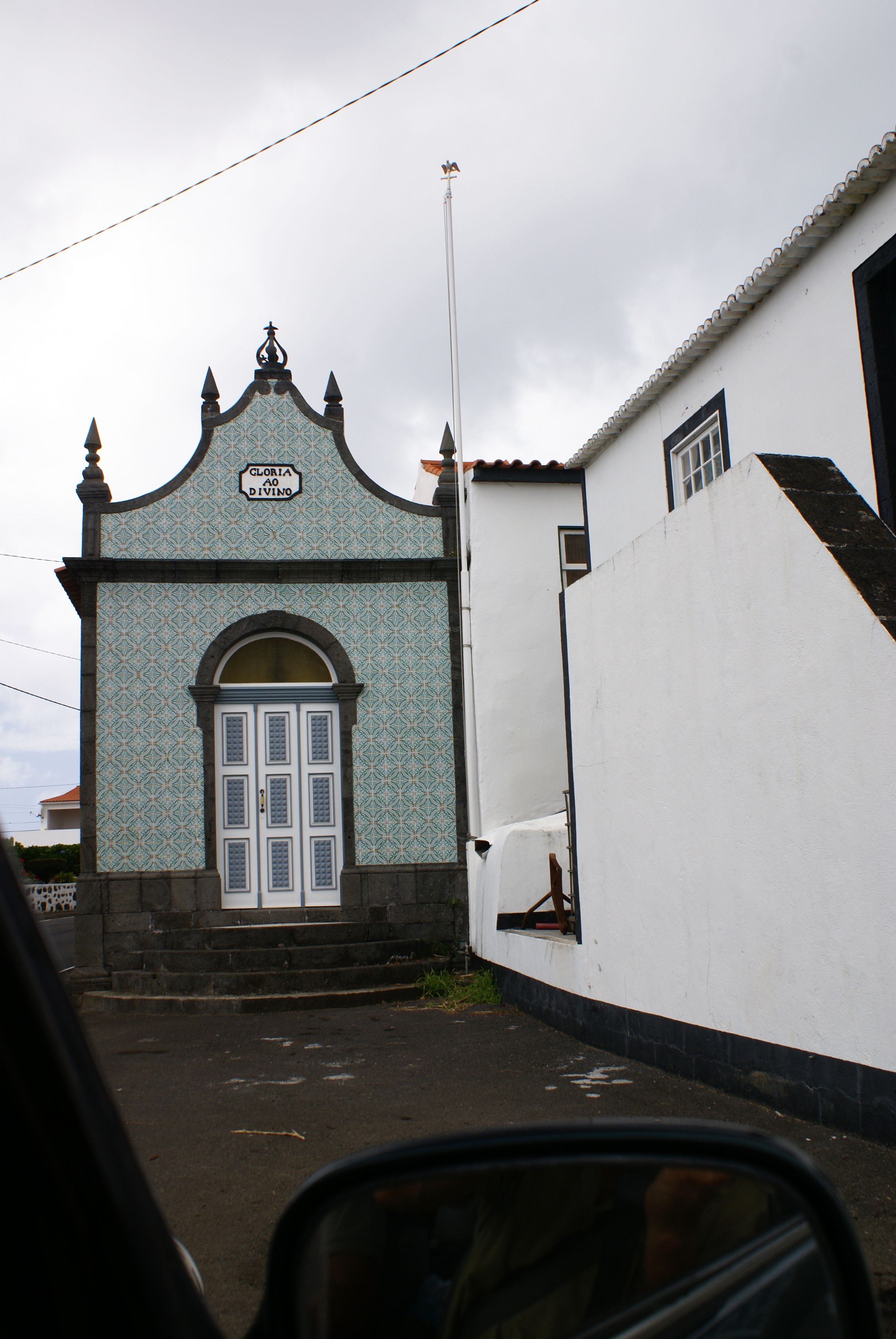 Império do Espírito Santo da Coroa Nova, Castelo Branco, concelho da Horta, ilha do Faial, Açores, Portugal